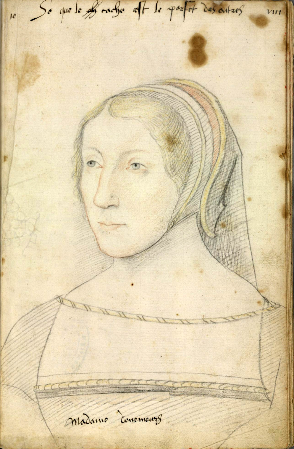 Philiberte de Savoie, wife of Giuliano de’Medici, Duke of Nemours